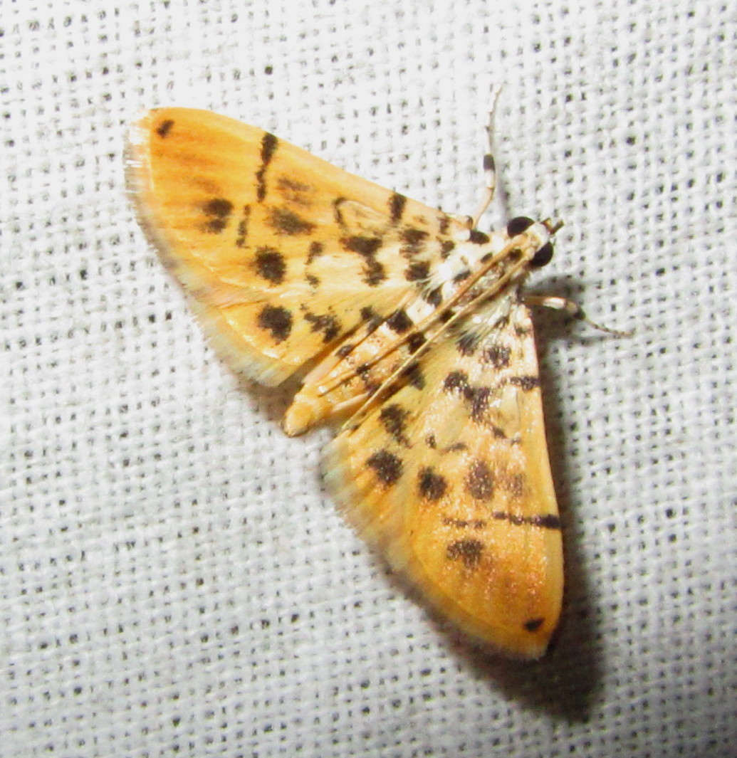 Anti-poaching camp, Pakke Tiger Reserve, East Kameng, Arunachal Pradesh, India 16 April 2012